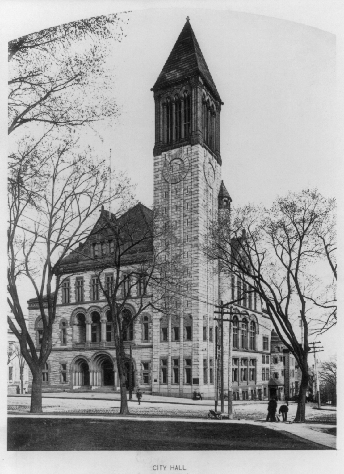 Photograph of the City Hall of Albany, New York, taken circa 1897.